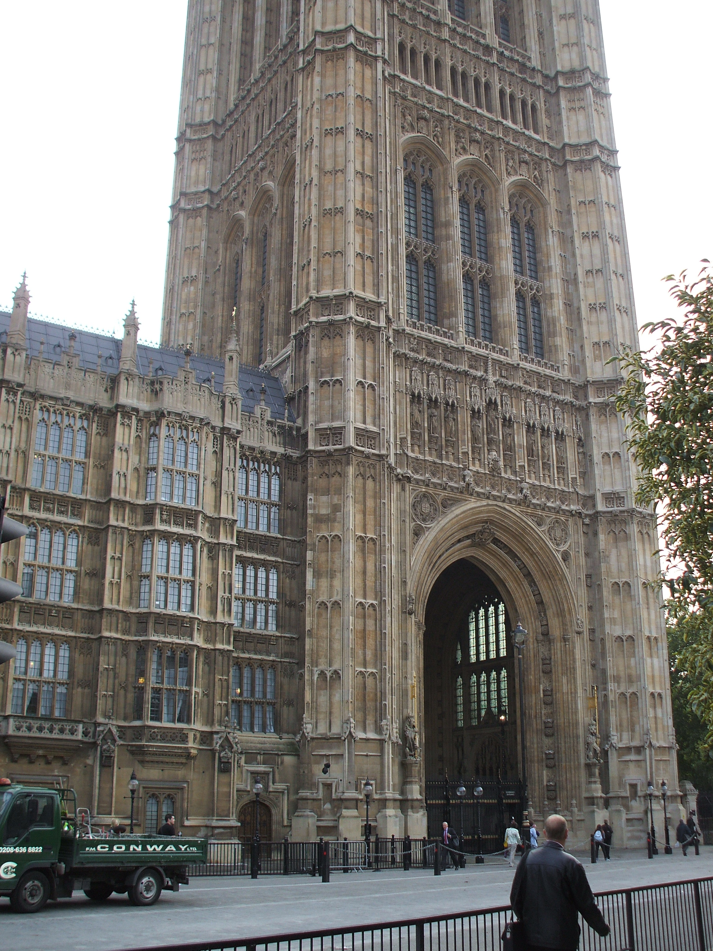 The base of Victoria Tower as viewed from across Abingdon Road.